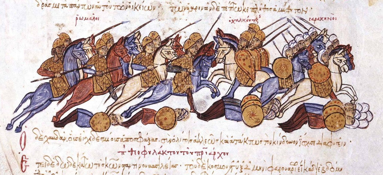 The general Leo Phokas the Younger defeats the Arabs under Sayf al-Dawla in 950. The Byzantine ambassador, Niketas Chalkoutzes, escapes from Arab captivity during the battle.